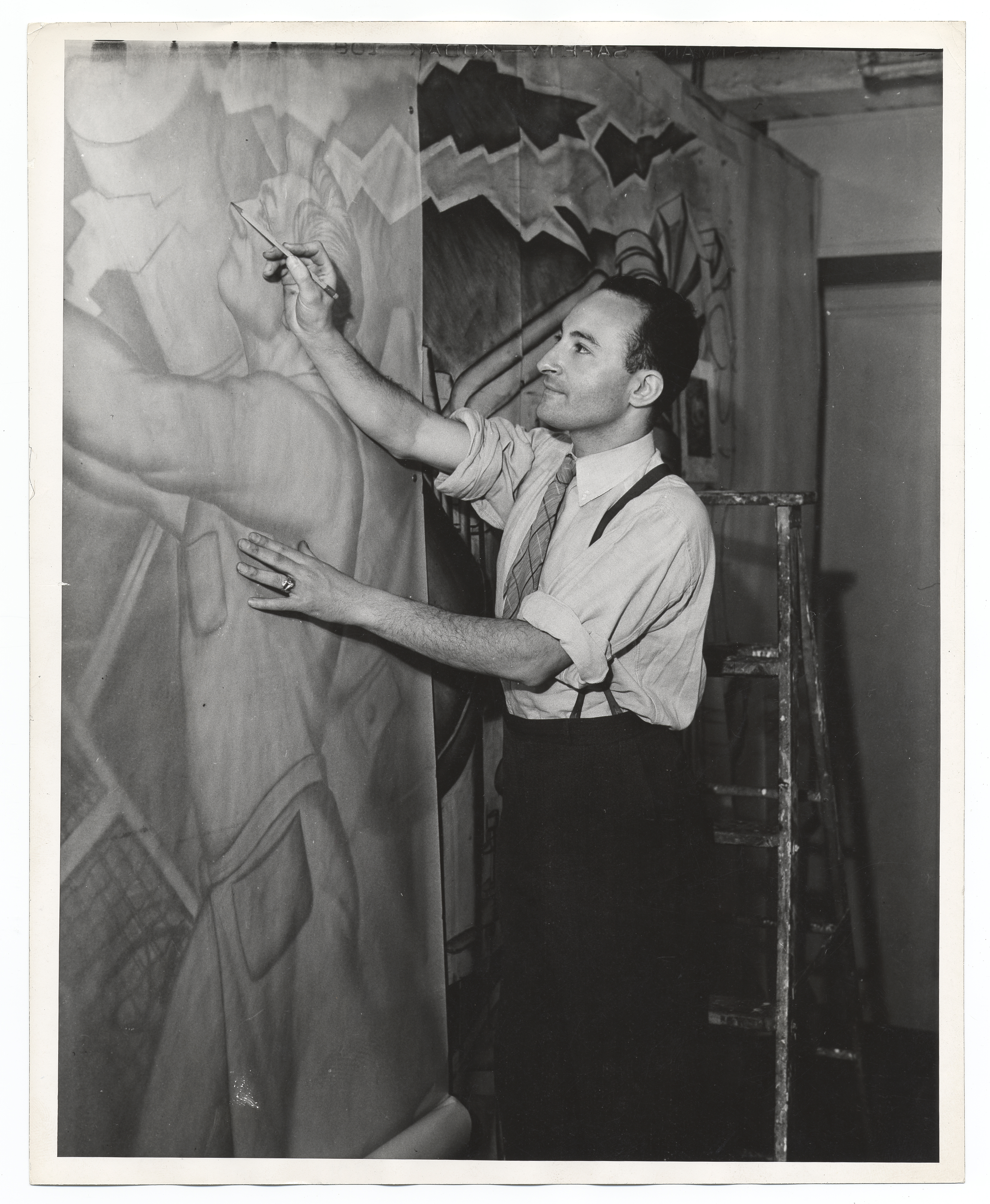 Van Aalten at work on mural.Identification on verso (handwritten and typed): Federal Art Project W.P.A.; Photographic Division; 235 East 42nd Street; New York City Artists at work on mural, 6 E 42 St., 5th floor, N.Y.; Date: 6/3/38; Negative No.: 3041-2; Photographer: Von Urban.